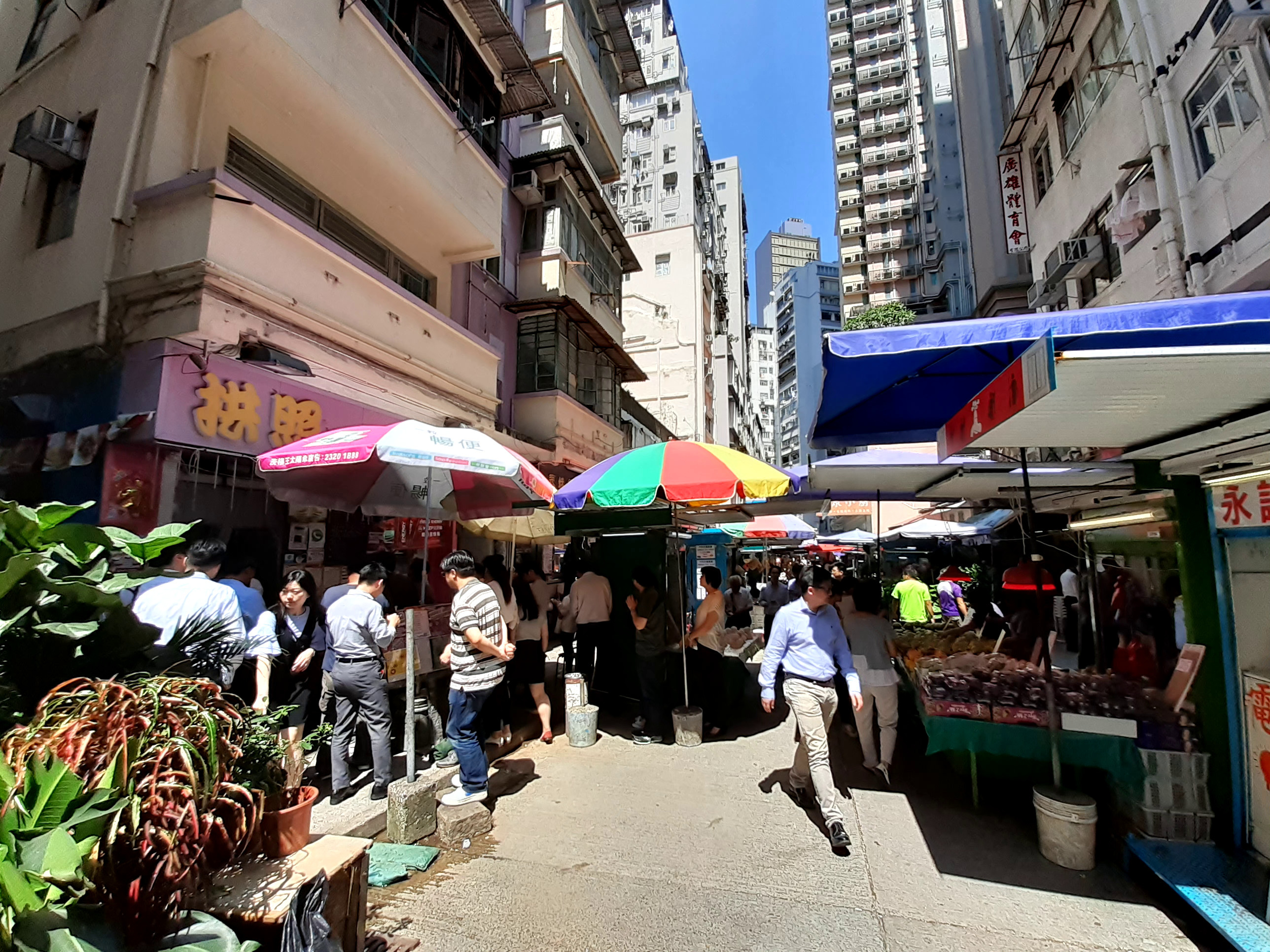 HK 灣仔 Wan Chai 機利臣街 Gresson Street 皇后大道東 Queen's Road East in October 2019